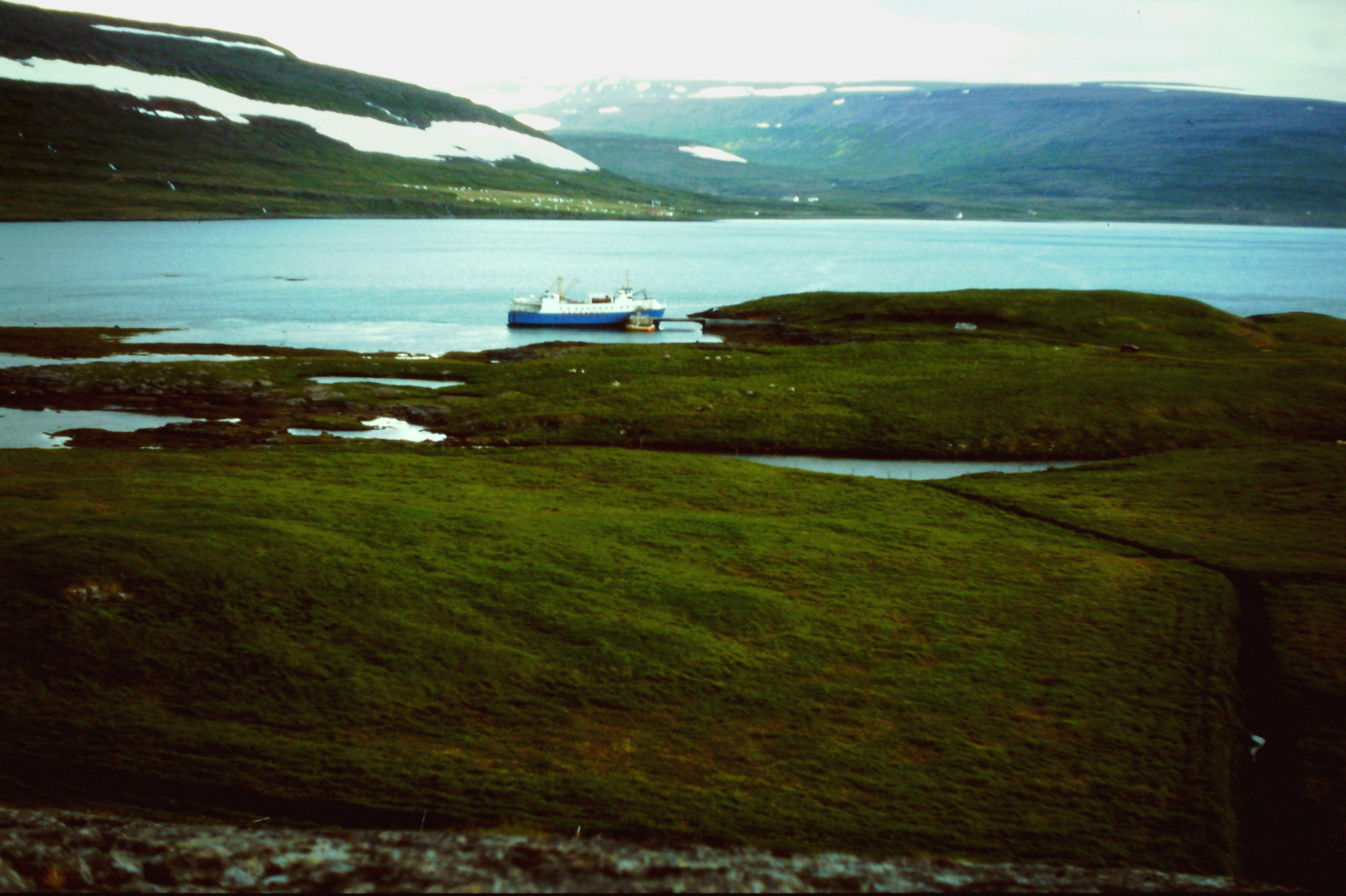 Æðey with ferry "Fagranes"